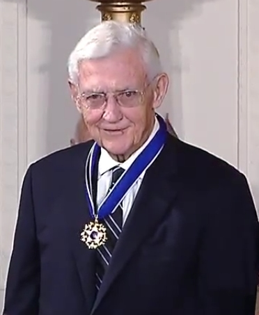 John Doar receives Medal of Freedom, 2012